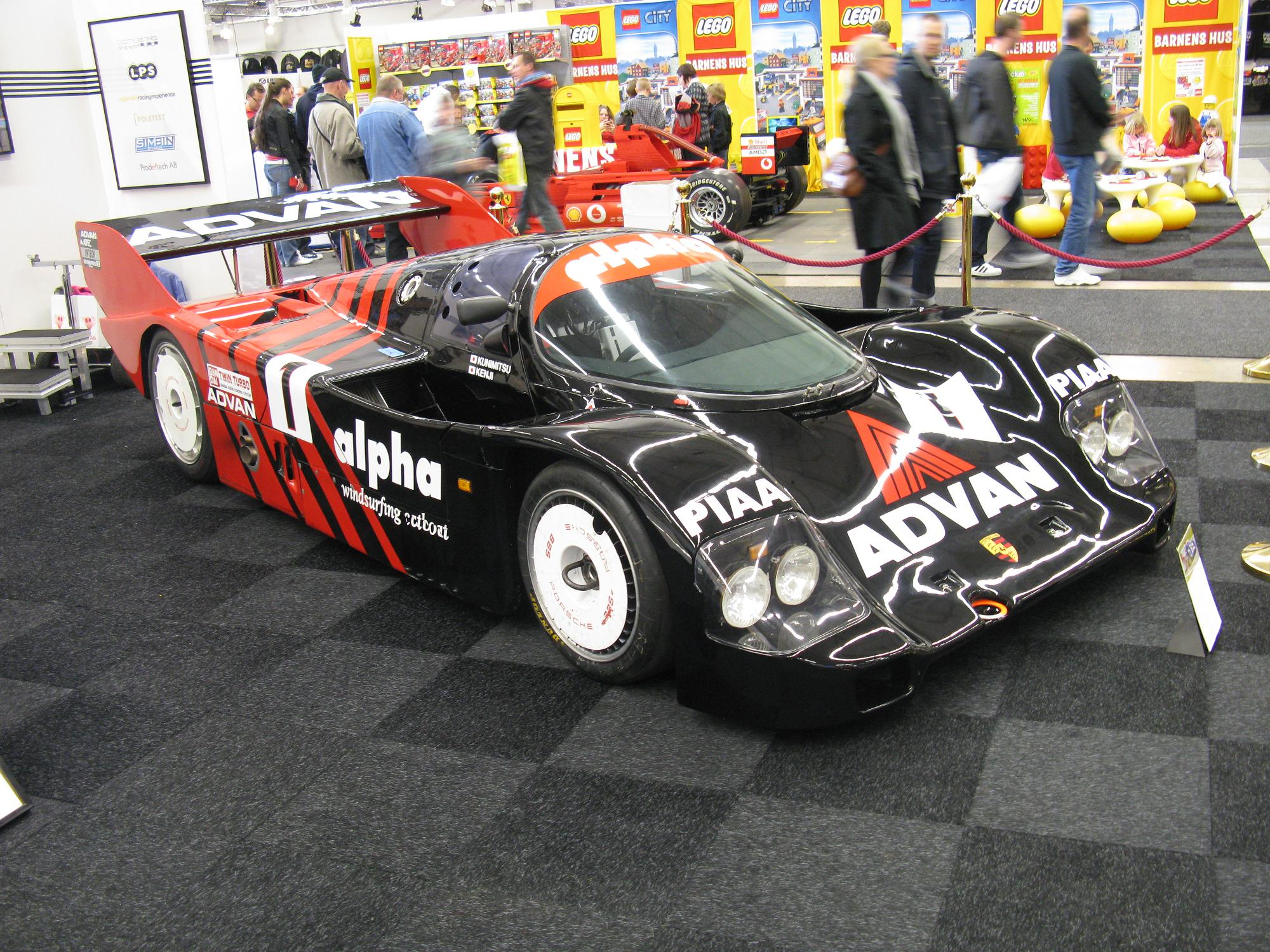 Nova Engineering's Porsche 962C (chassis numbers 962-147). This car has been run as an Advan Alpha Nova entrant in the All-Japan Sports Prototype Championship in 1990